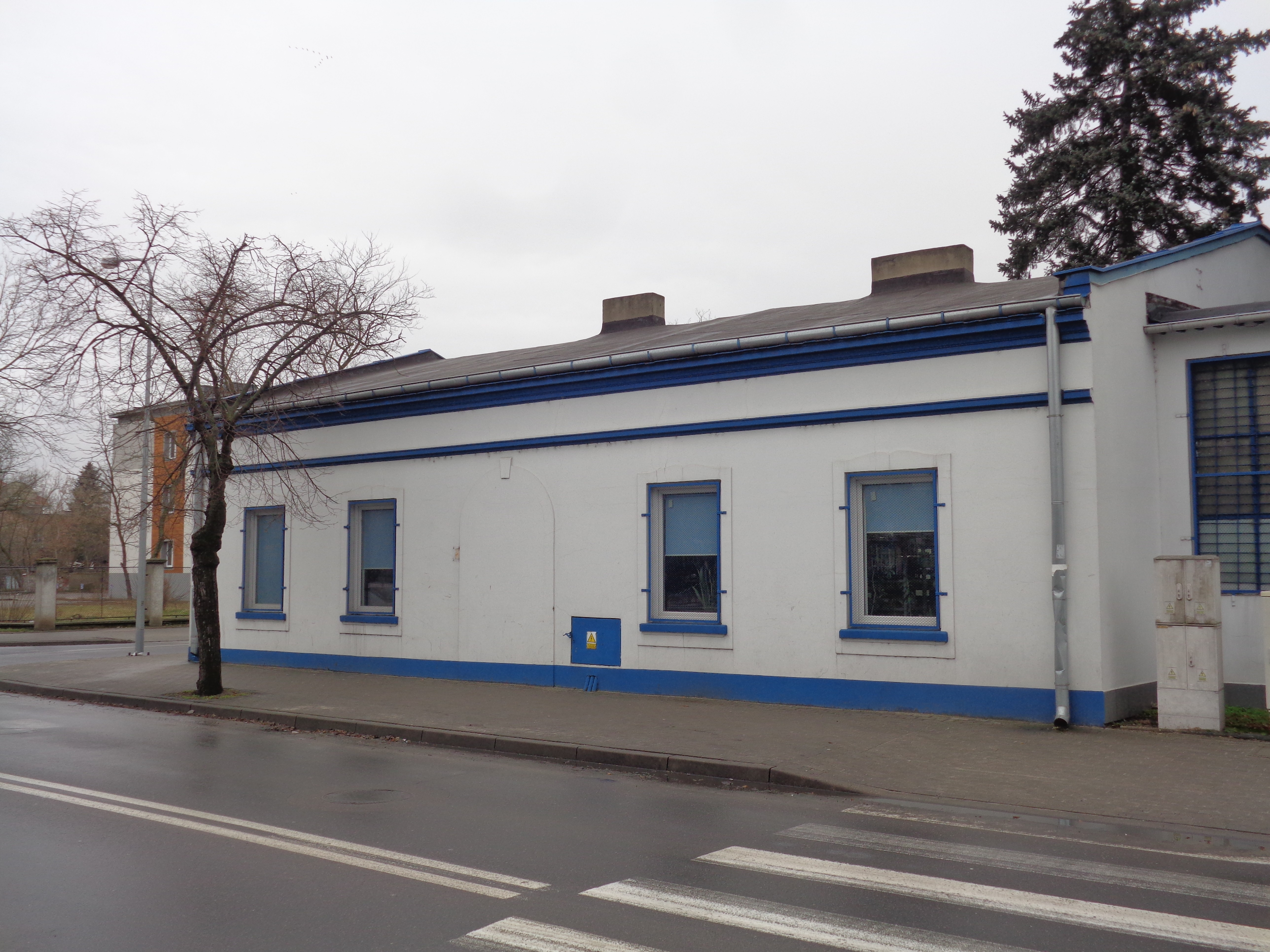 Building, where lived Ignacy Ciechurski and where in 1916 year he founded manometer factory named of himself. Factory had been nationalized and expanded, transform to the Mera factory. Later it was called Kuyavian Manometer Factory. Nowadays it is WIKA factory.